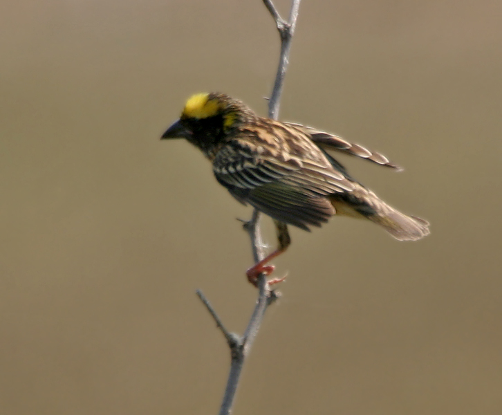 Streaked Weaver Ploceus manyar in Krishna Wildlife Sanctuary, Andhra Pradesh, India.